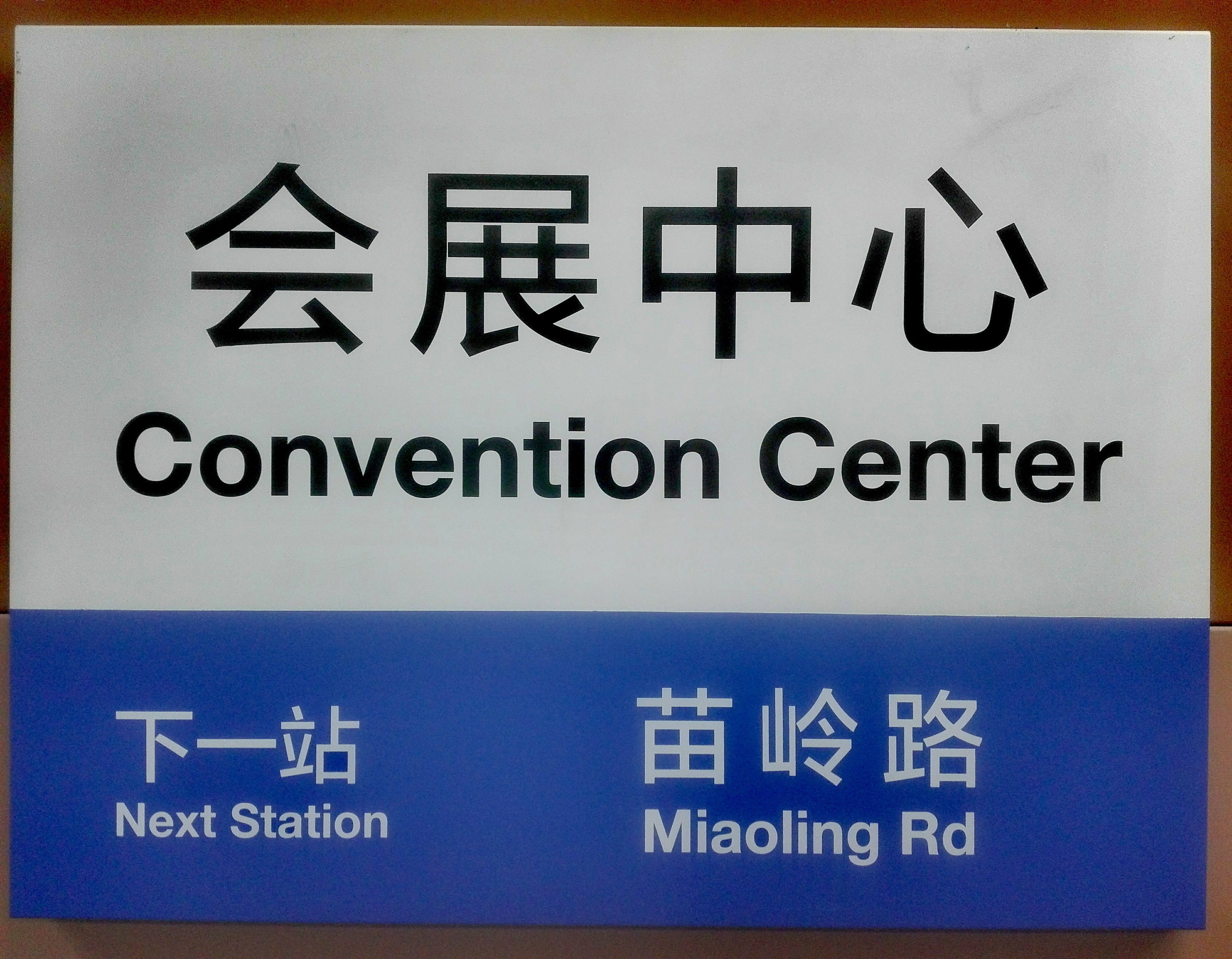 Convention Center Station sign